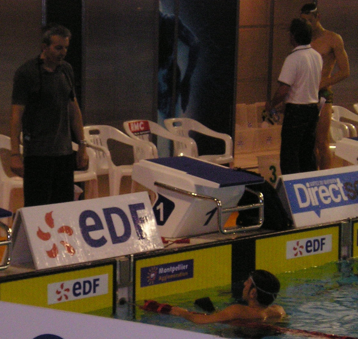 French Swimming Championships, Montpellier, 26 April 2009 afternoon: trainer Alexis Pannier (left) and swimmer Anthony Pannier (right, in the water).